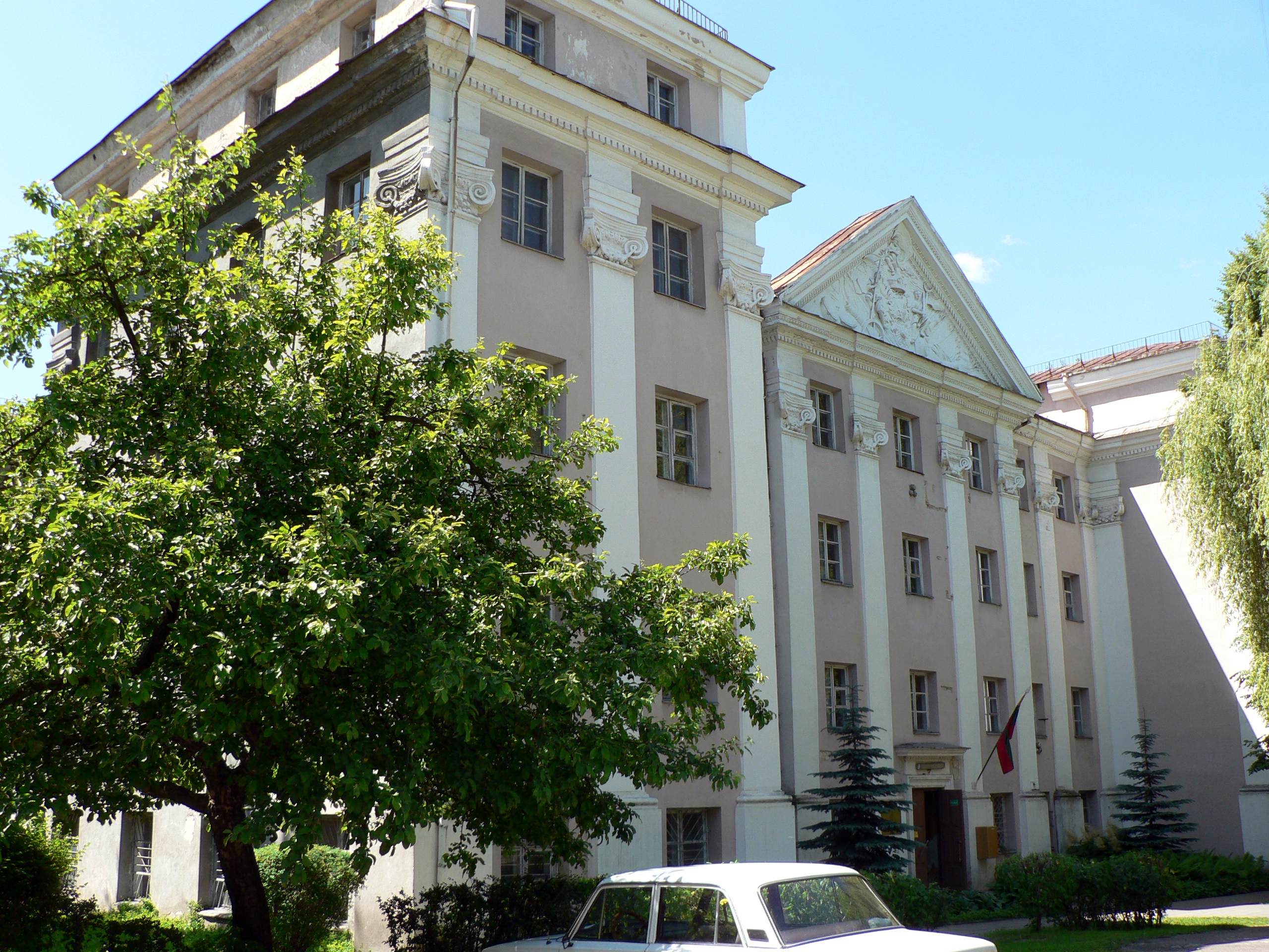 Front view of Slushko Palace in Vilnius, Lithuania